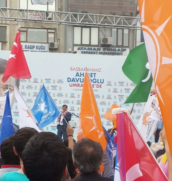 A Justice and Development Party (AKP) electoral rally in Ümraniye, İstanbul, for the 2015 Turkish general election